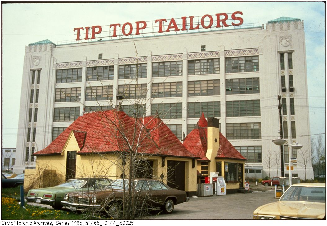 Photographer: City of Toronto Planning and Development Department ca. 1980 City of Toronto Archives Series 1465, File 144, Item 25